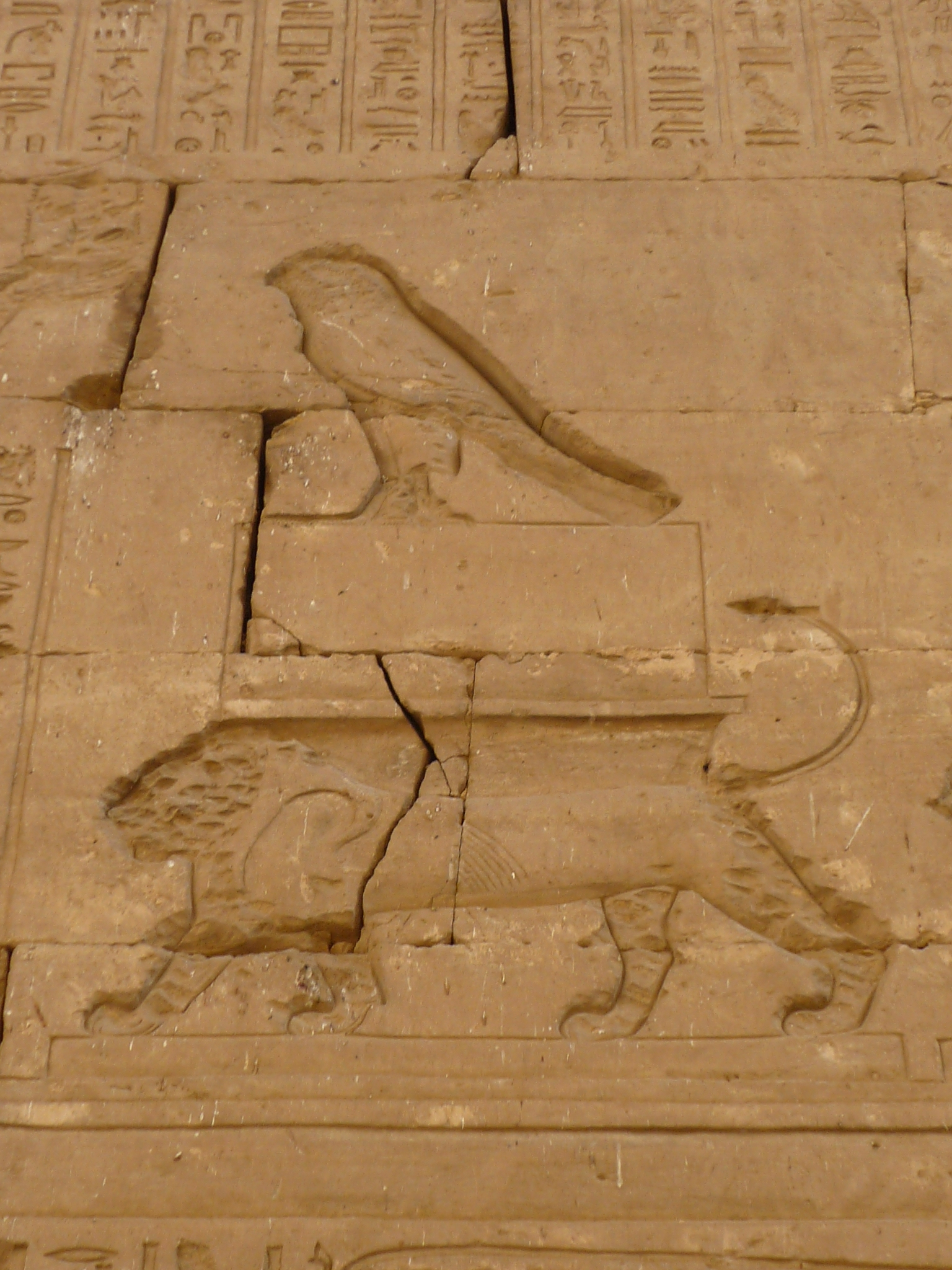 Wall relief of Horus, temple of Edfu, Egypt